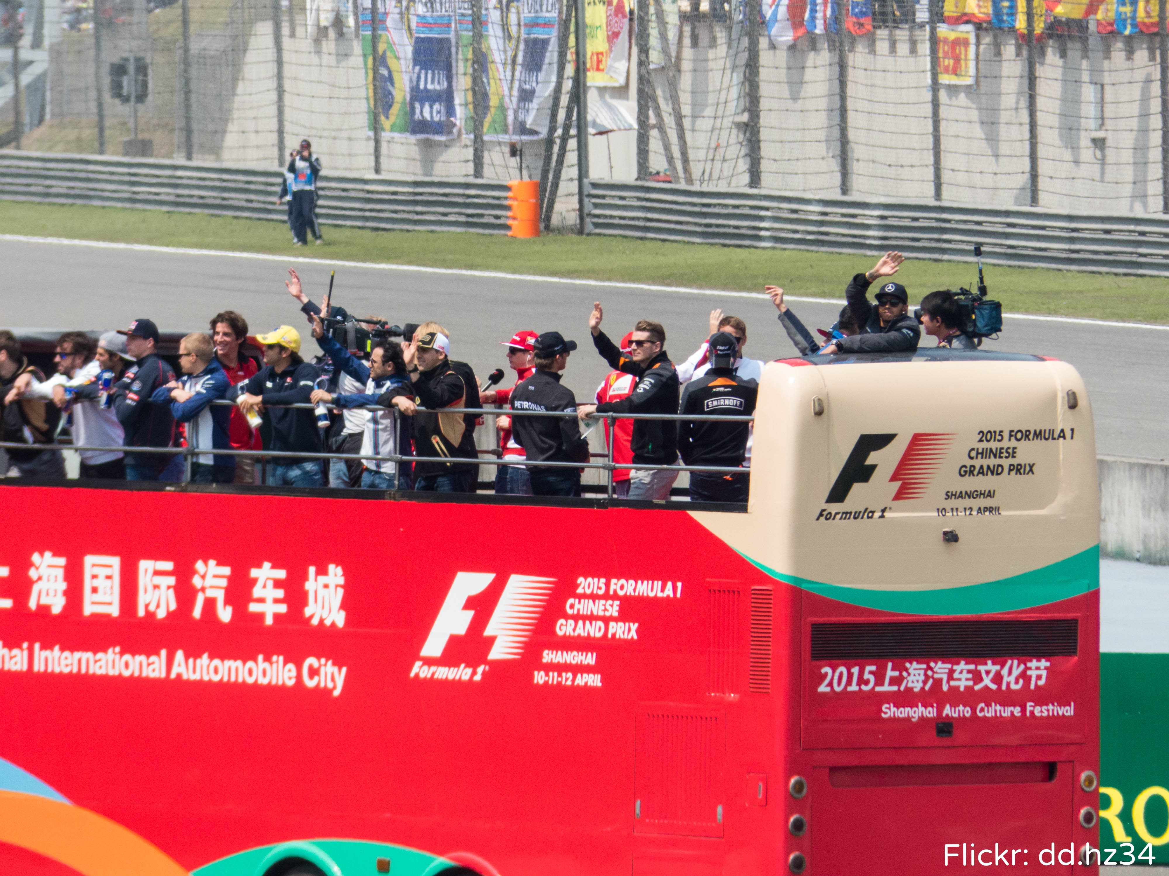 2015 Chinese Grand Prix Driver Parade